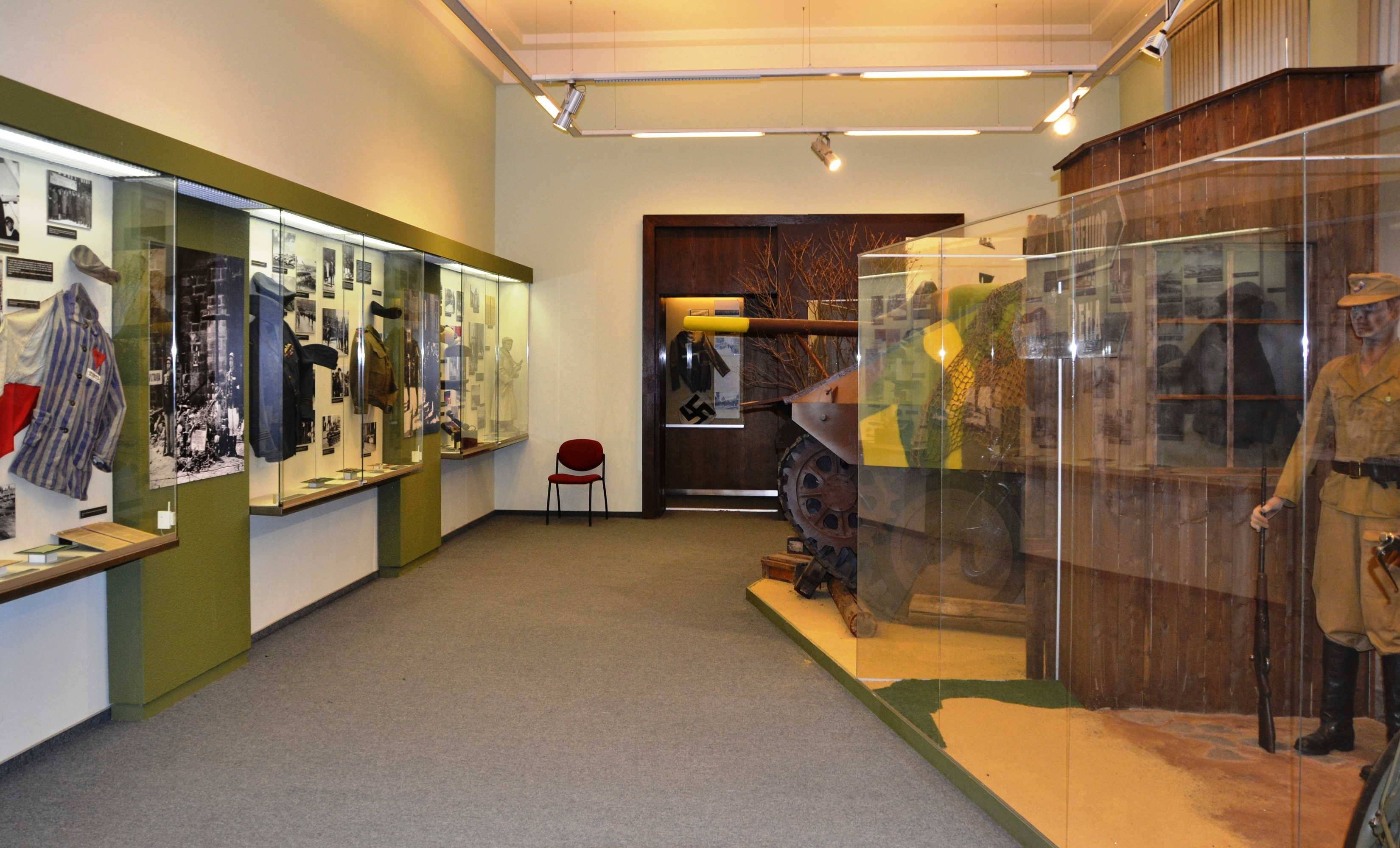 Inside the Army Museum Žižkov (Prague).